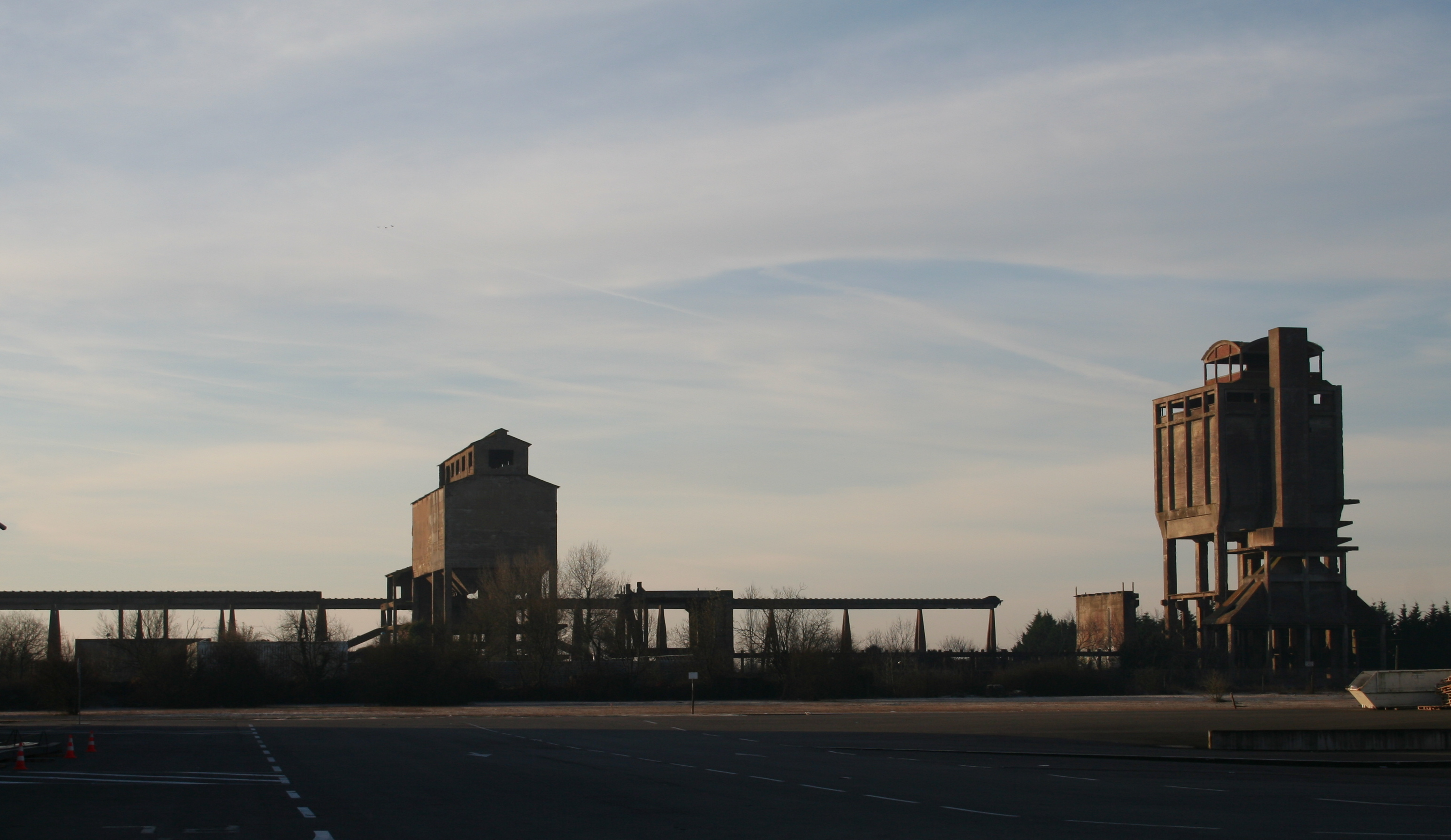 Remains of the Forges de Trignac. Remains of the coke ovens (probably the water tower for extinguishing the coke).